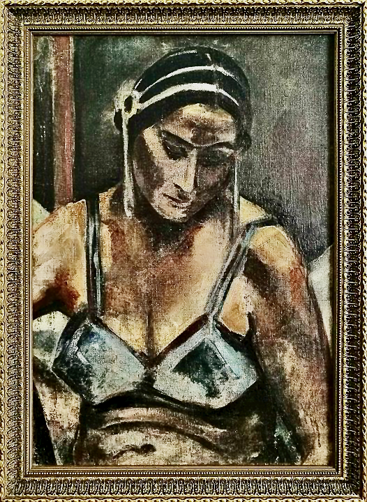 Painting by Algirdas Savickis (1917–1943): Poser Uzė, circa 1937